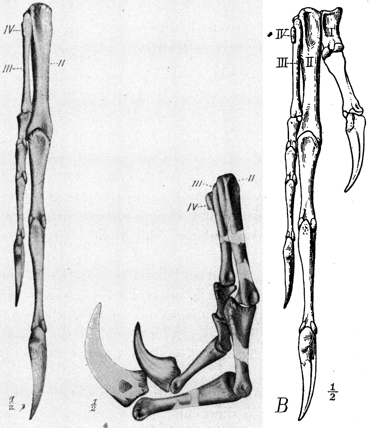 Incomplete manus of Ornitholestes hermanni; Digit I is missing in this specimen. Amer Mus. No. 587. Palmer (A) and internal (B) views, one-half natural size. After Osborn, 1903.